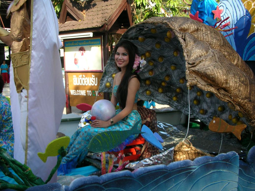 Chiang Rai Witthayakhom School 2012 Sports Day parade